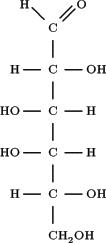 Fischer projection of D-galactose